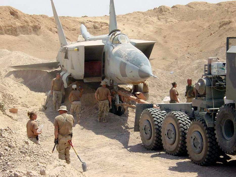 U.S. forces use heavy equipment to pull a MiG-25R Foxbat-B from beneath the sands in Iraq on July 6, 2003. A U.S. military search team has uncovered several MiG-25s and Su-25 ground attack jets found buried at Al-Taqqadum airfield west of Baghdad.